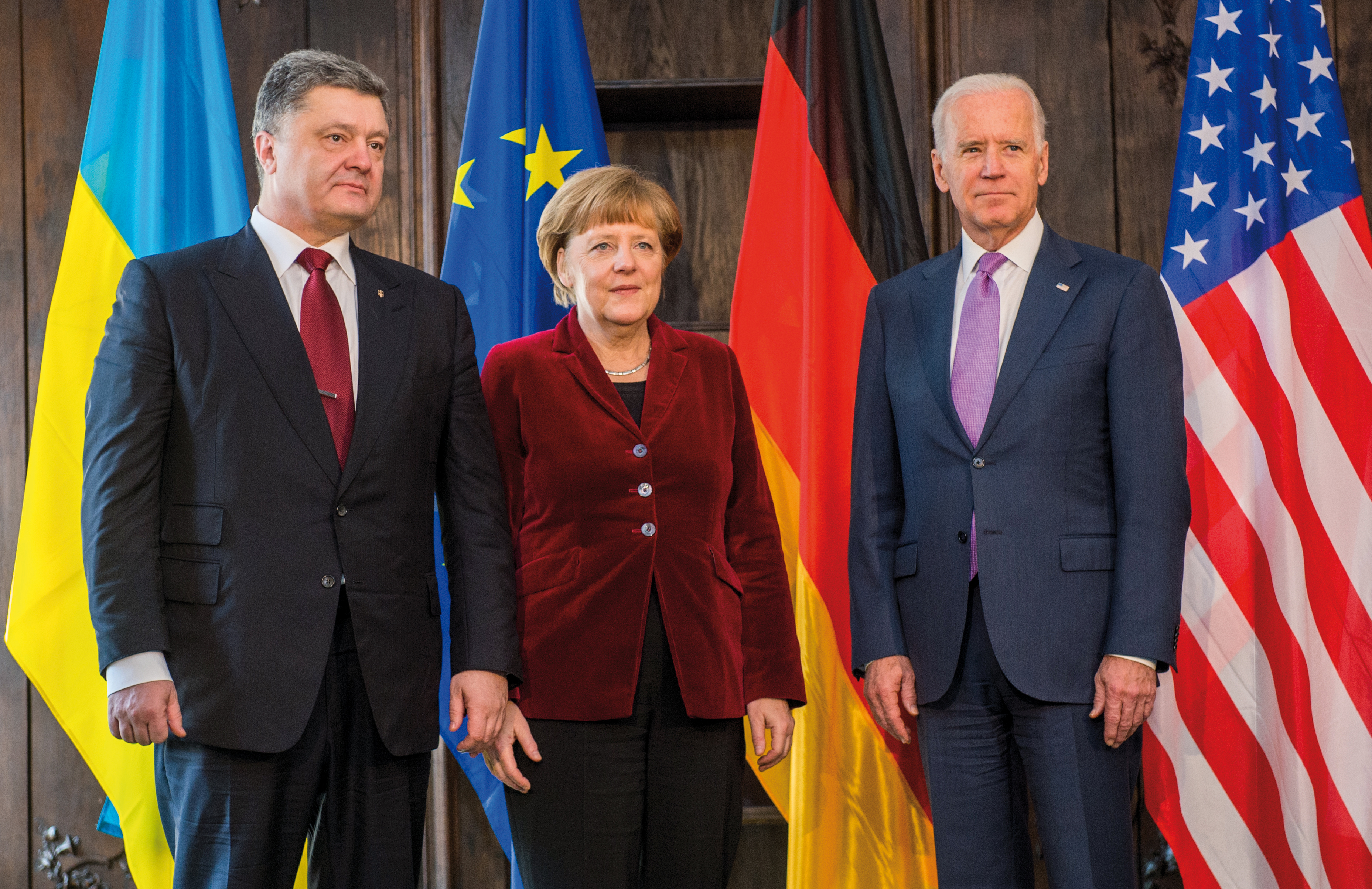 51st Munich Security Conference 2015: Petro Poroschenko (President, Ukraine), Dr. Angela Merkel (Federal Chancellor, Federal Republic of Germany), Joseph R. Biden Jr. (Vice President, United States of America)